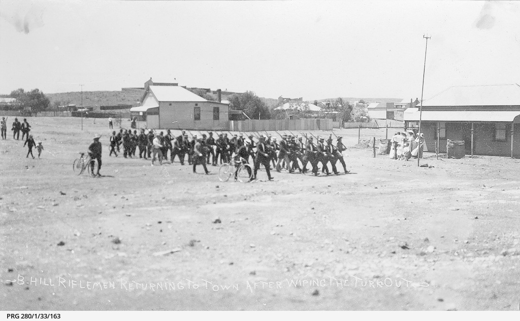 Riflemen returning to town after wikiping the Turks out, Broken Hill, 1915